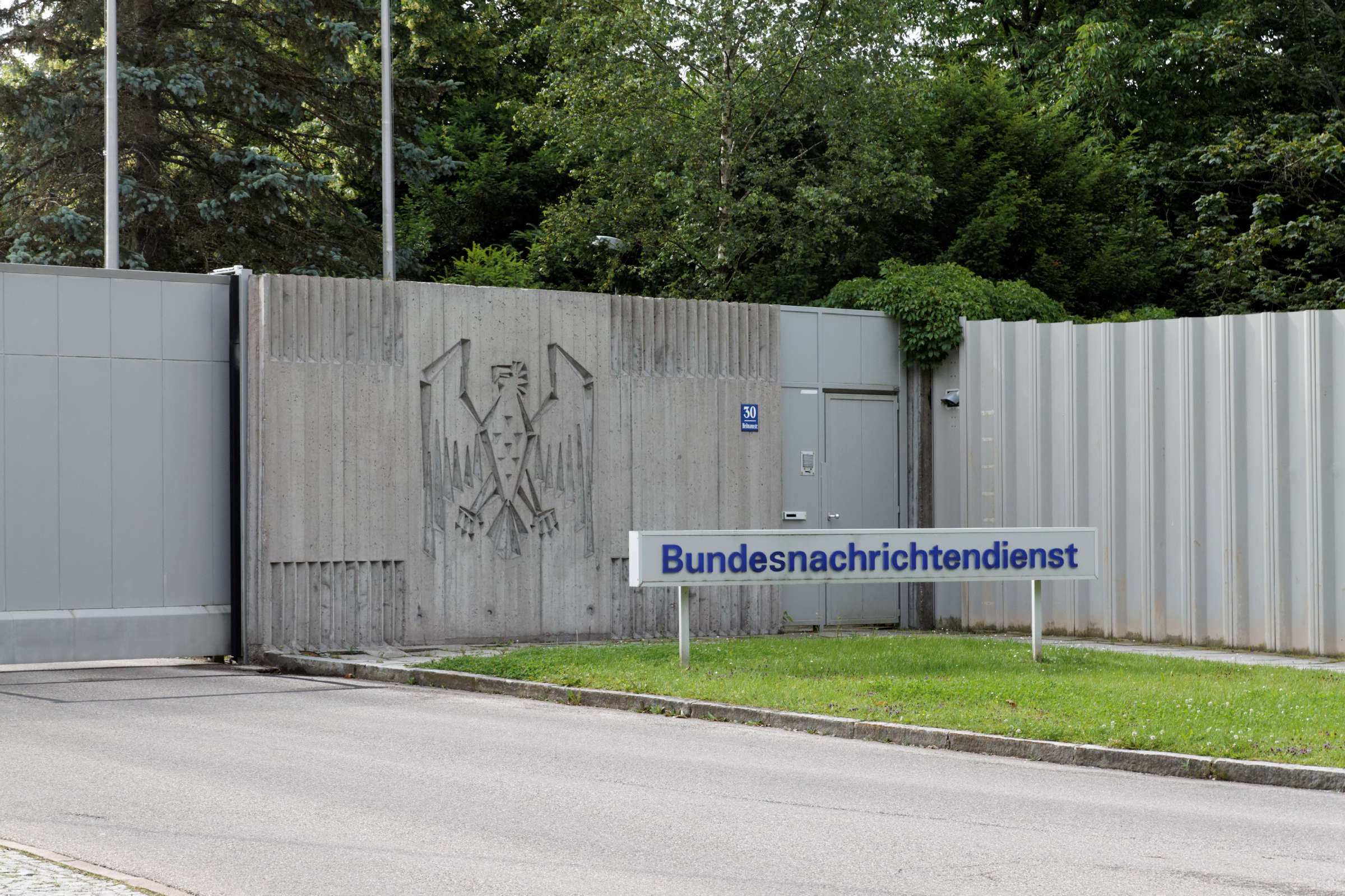 Entrance to Bundesnachrichtendienst headquarters in Pullach